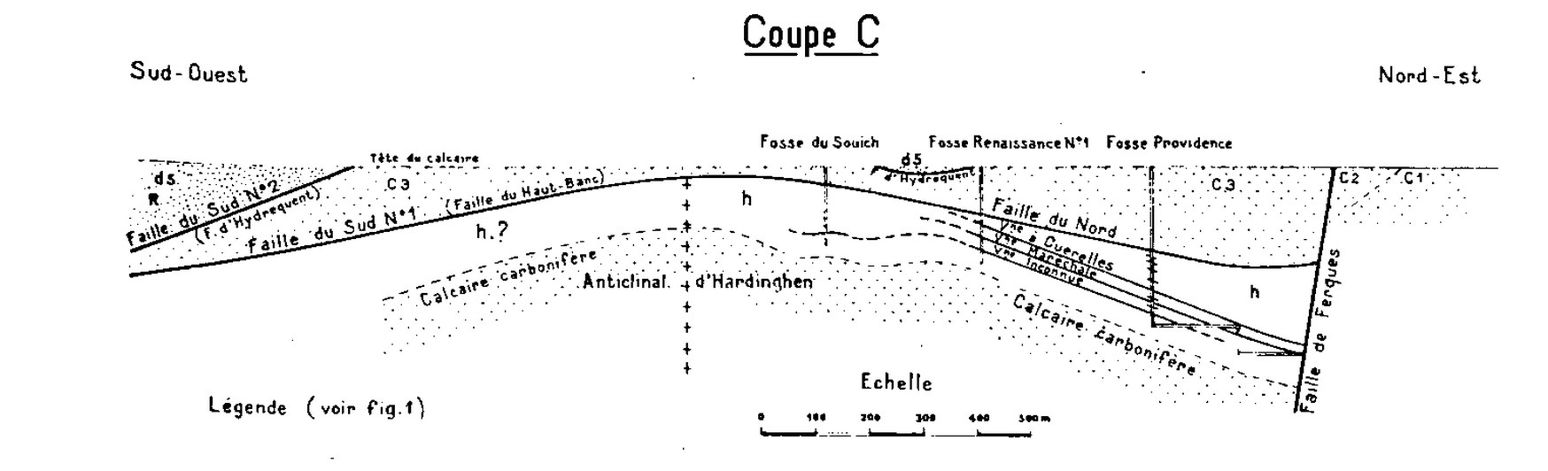 More informations in the French article Mines du Boulonnais.